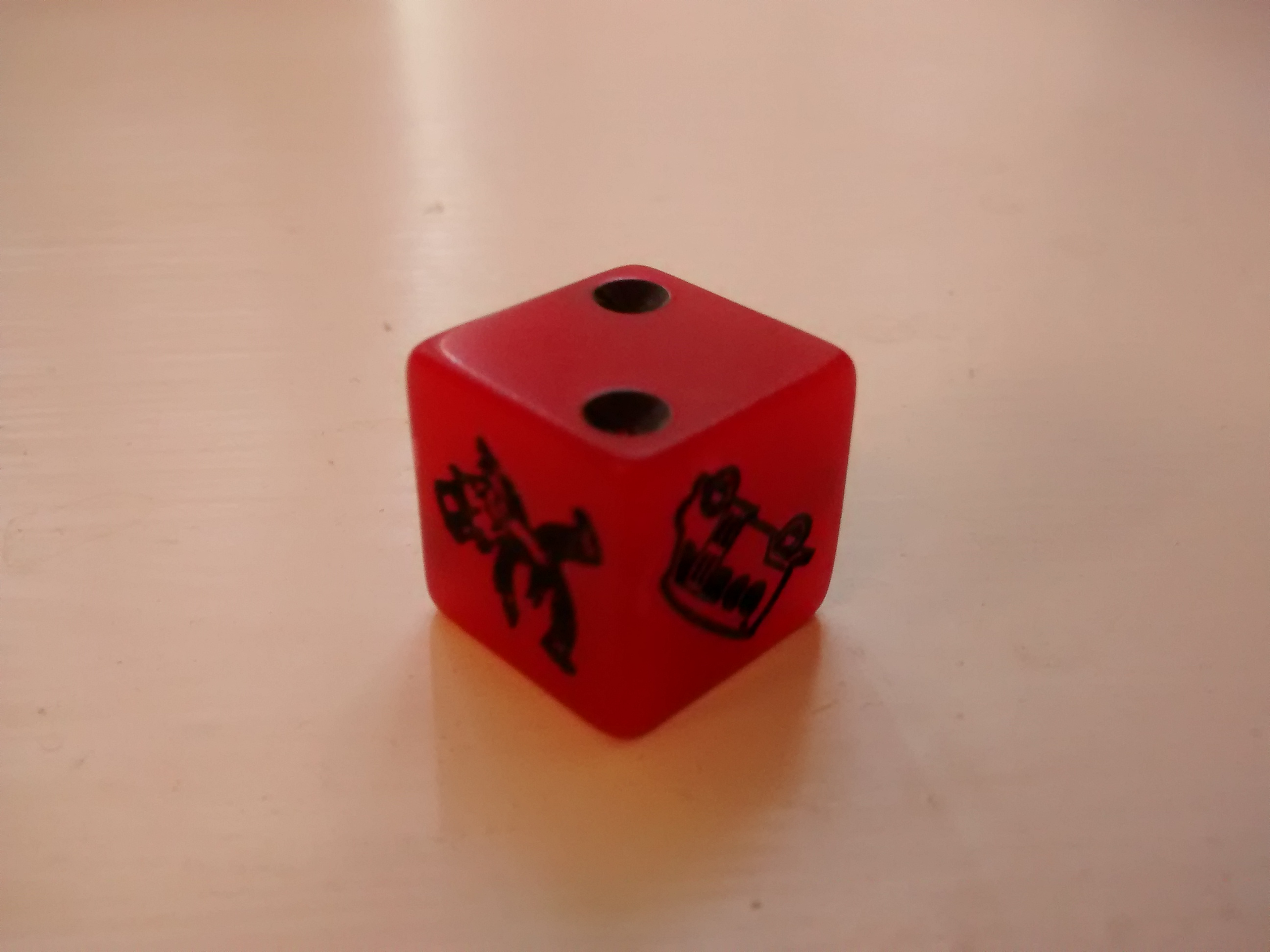 A Speed Die from the board game Monopoly.